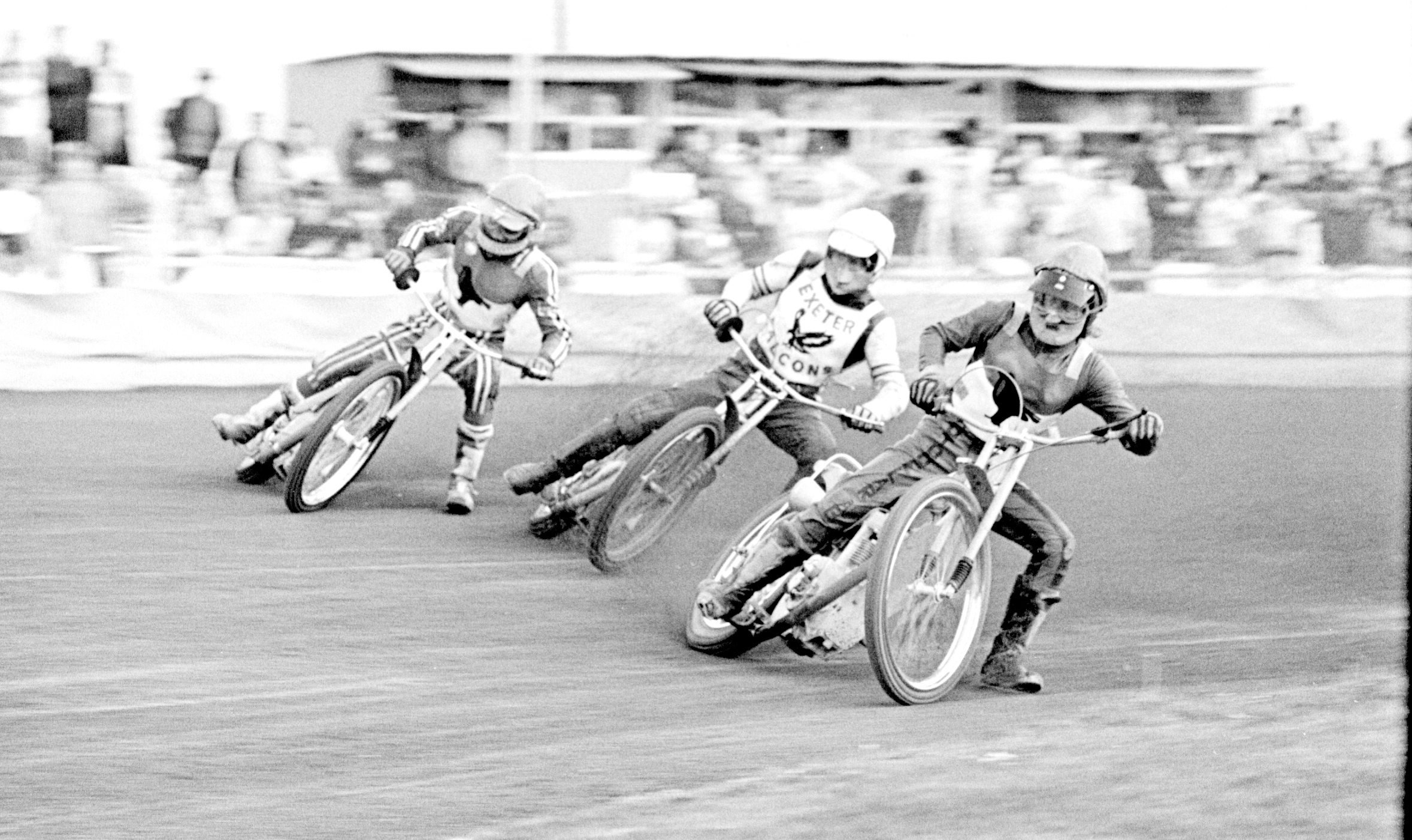 Exeter Falcons at home to Swindon Robins.